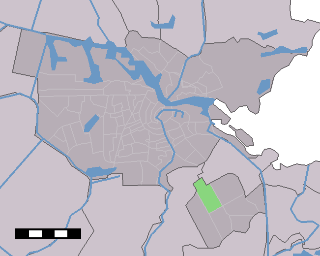 Location of neighbourhoods/districts in Amsterdam